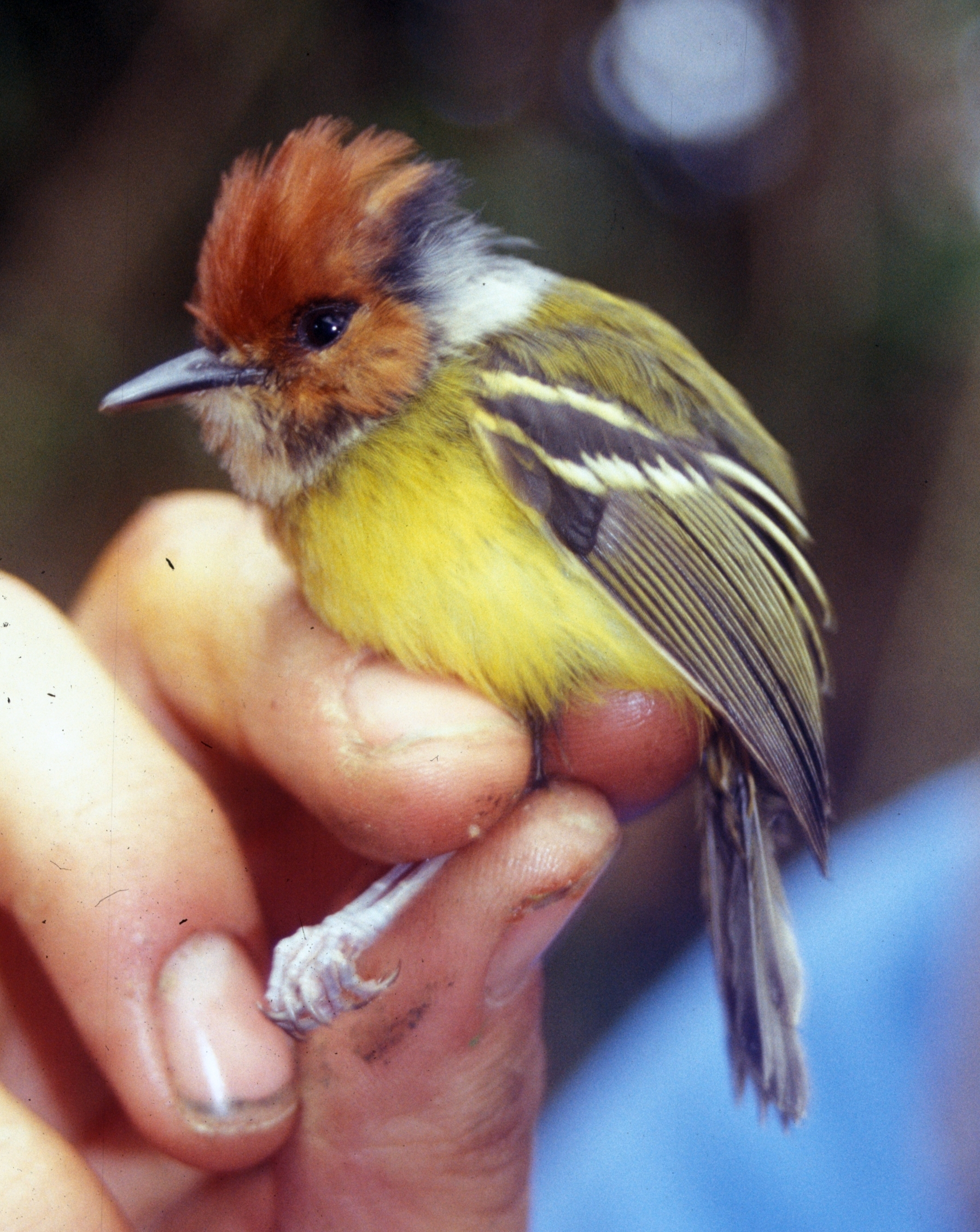 Rufous-crowned Tody-tyrant (Poecilotriccus ruficeps) in Ecuador